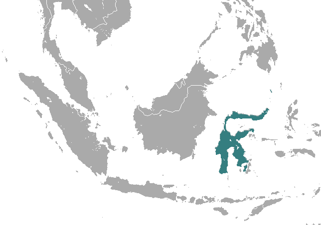 Sulawesi Dwarf Cuscus (Strigocuscus celebensis) range